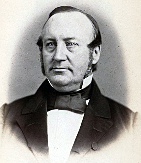 Robert Bernard Hall, US Representative from Massachusetts